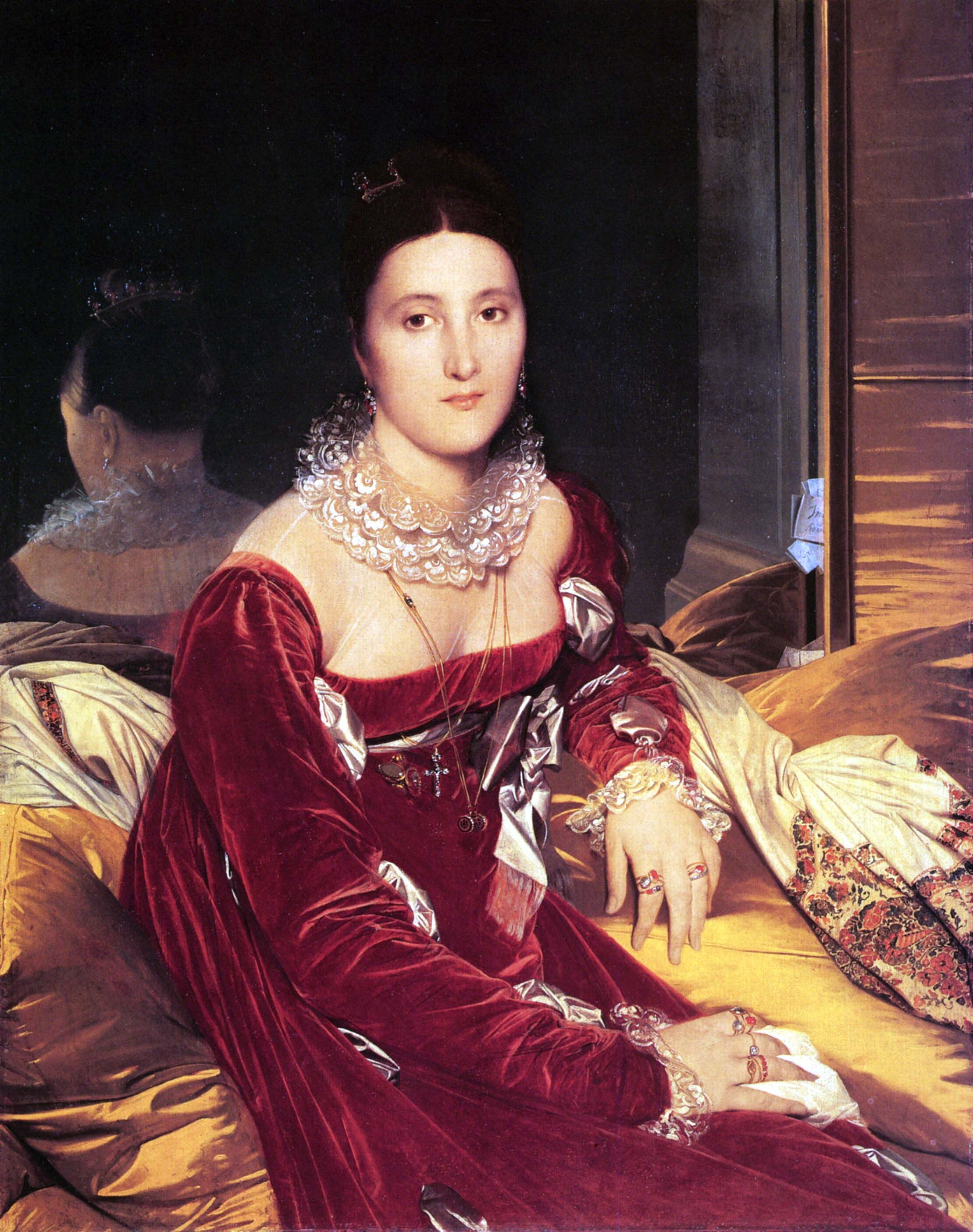 Portrait of Madame de Senonnes, musée des Beaux-Arts, Nantes, France.